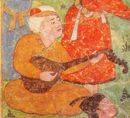 Detail of: The musician Barbad plays for Khusrau Parviz. Illustration in manuscript of Ferdowsi's Shahnameh epic. MS IOS AS Uzbek SSR, 3463, Folio 508, recto. Bukhara